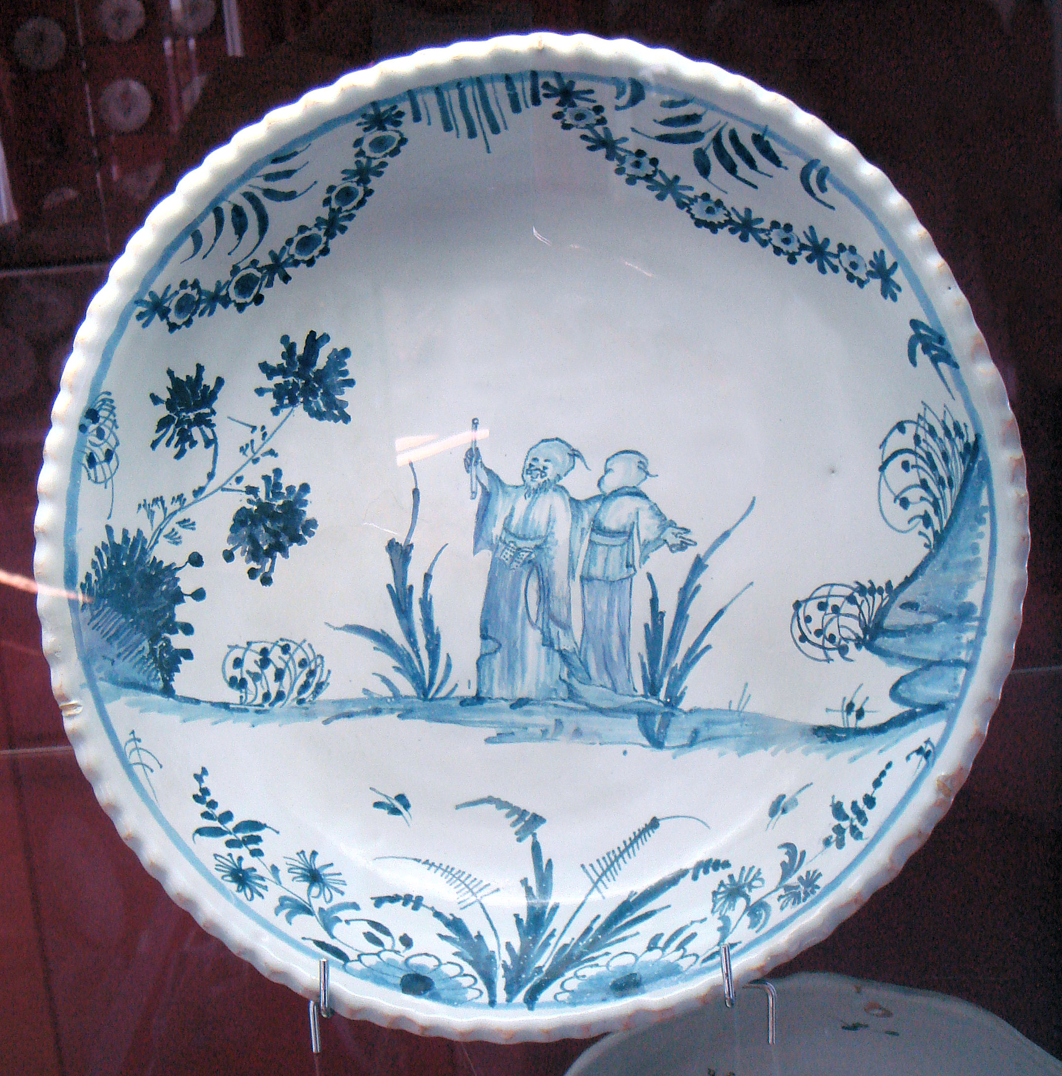 La_Rochelle_Faience_de_grand_feu_with_Chinese_decorations_18th_century.